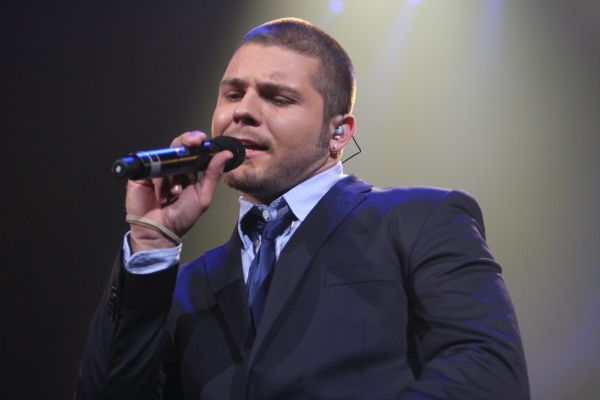 American Idol contestant Chris Richardson performing live during the American Idols LIVE! Tour 2007.